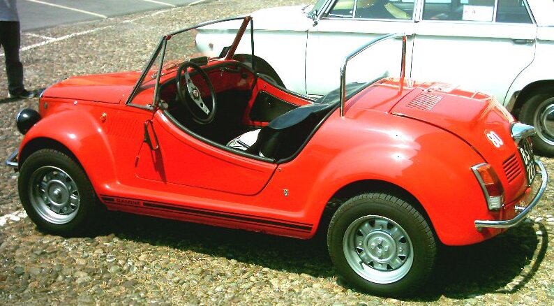 Fiat 500 Vignale Gamine fotografata al Raduno Auto Storiche di Medole nel 2007